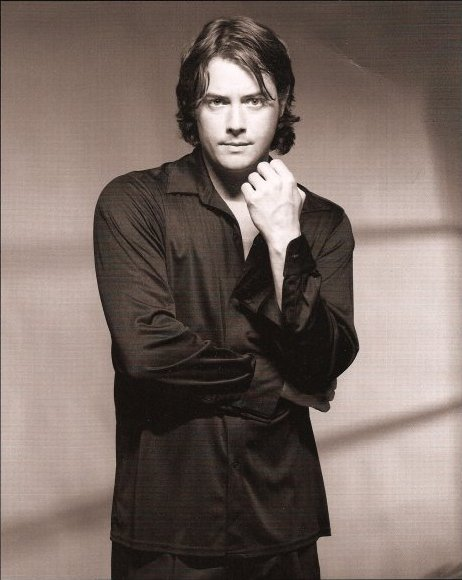 Picture of Jeremy London